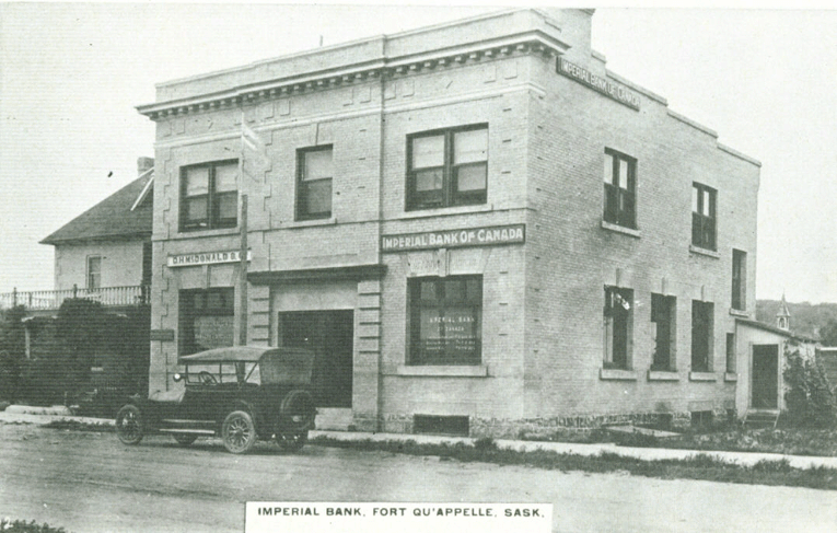 The Imperial Bank Of Canada. Now the Town Office.